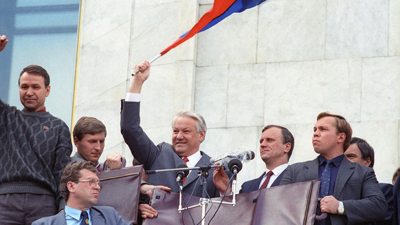 MOSCOW. A meeting was held at noon on 22 August 1991 near the RSFSR House of the Soviets in honour of the victory of Russian democracy over the reaction and was attended by many thousands of people. The tricolour Russian flag flew on the podium and it was on that very day that it acquired the status of a Russian state symbol. Russian President Boris Yeltsin congratulated the crowd on their victory and expressed his most profound thanks to those who had gathered during the preceding days and nights to defend democracy.